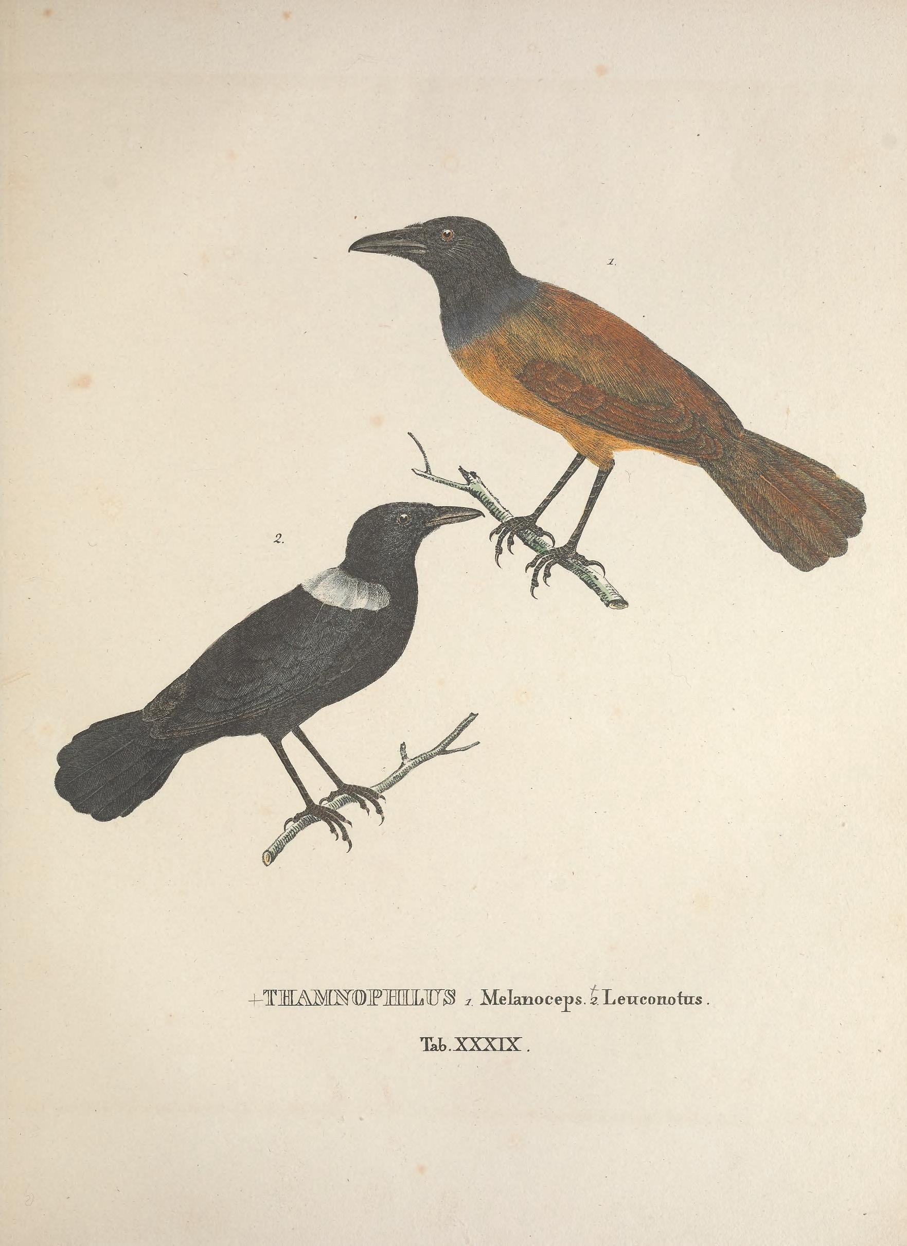 Avium species novae, quas in itinere per Brasiliam annis MDCCCXVII-MDCCCXX /. Monachii :Typis Franc. Seraph. Hübschmanni,1824-1825.. Thamnophilus melanoceps = Myrmeciza melanoceps, Akletos melanoceps (female above, male below)